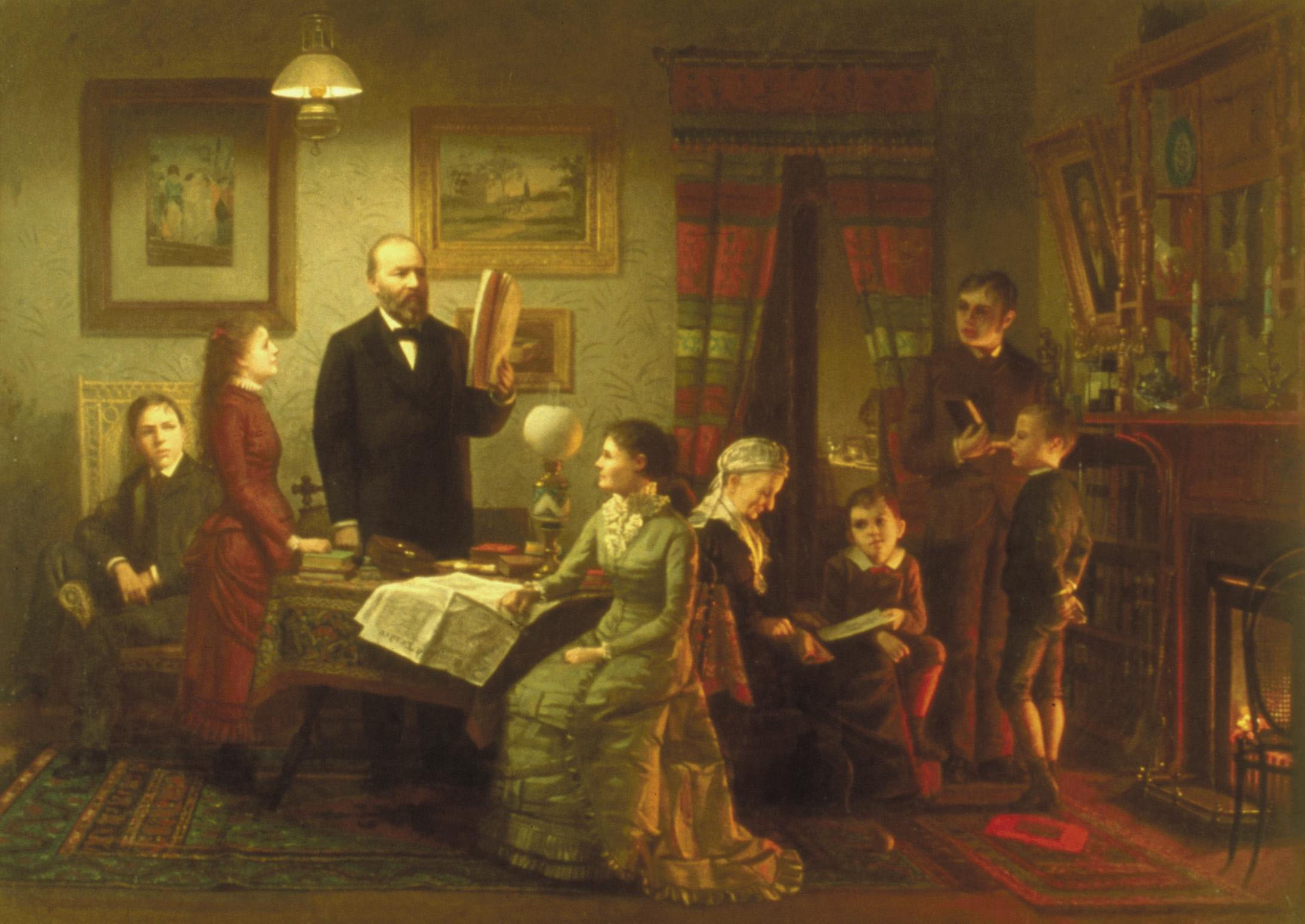 DeScott Evans: Winter evening at Lawnfield' , ca. 1881-1887, oil on canvas.